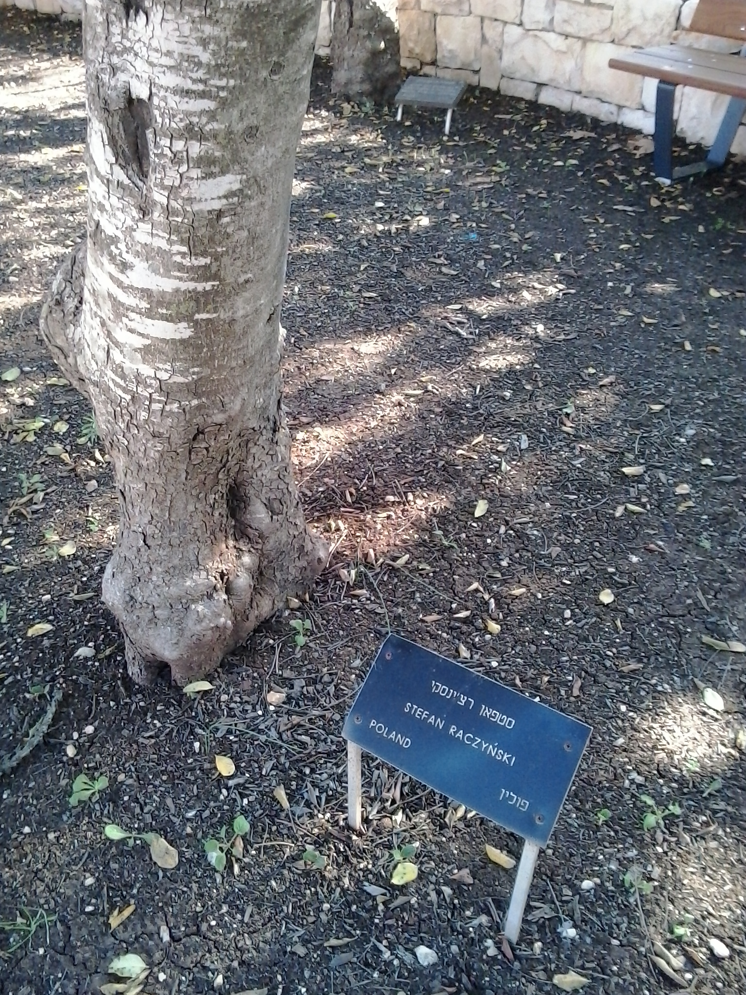 The tree planted at Yad Vashem honoring Righteous Among the Nations Stefan Raczynski